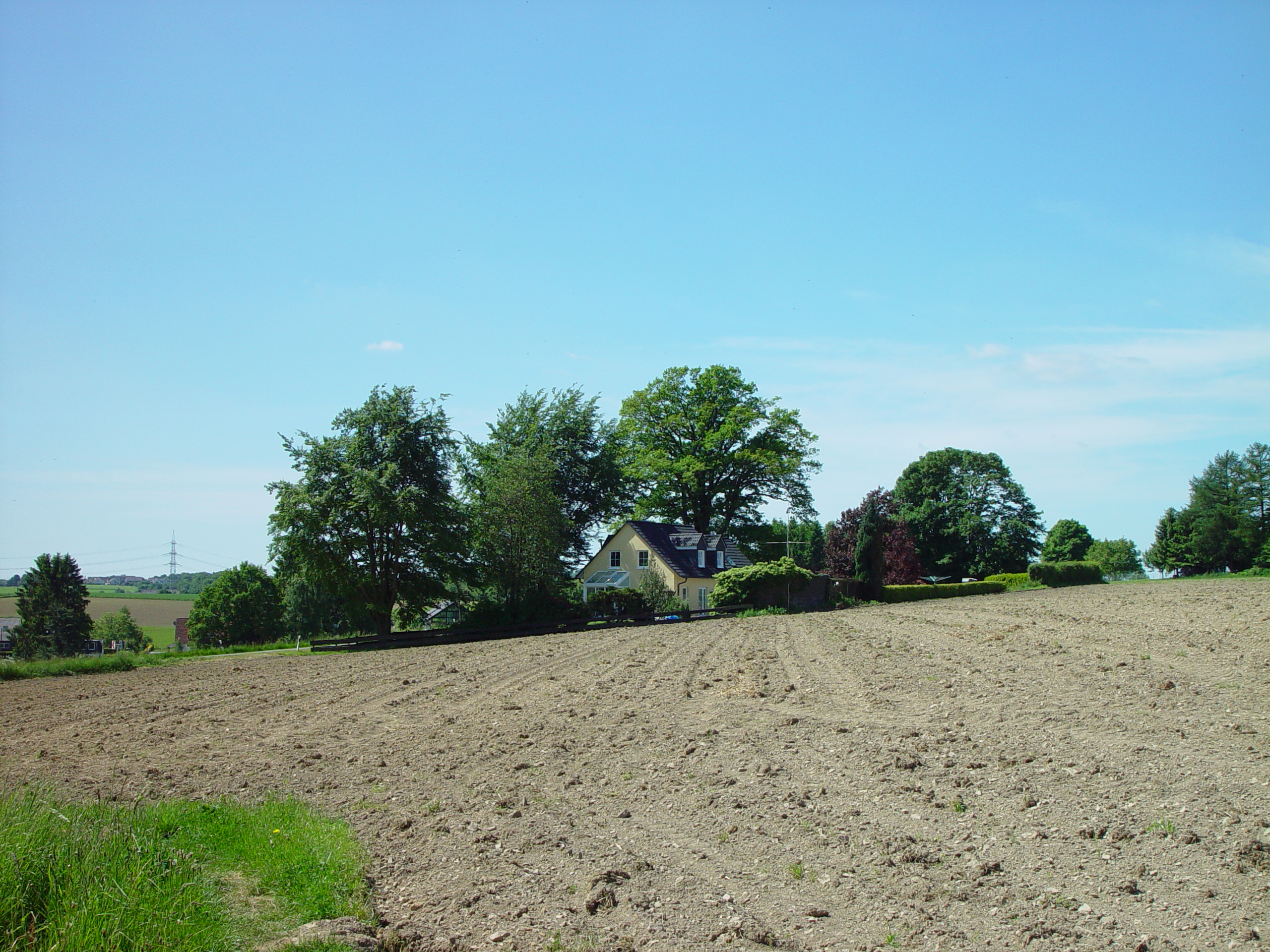 View of Spieckerheide in Wuppertal